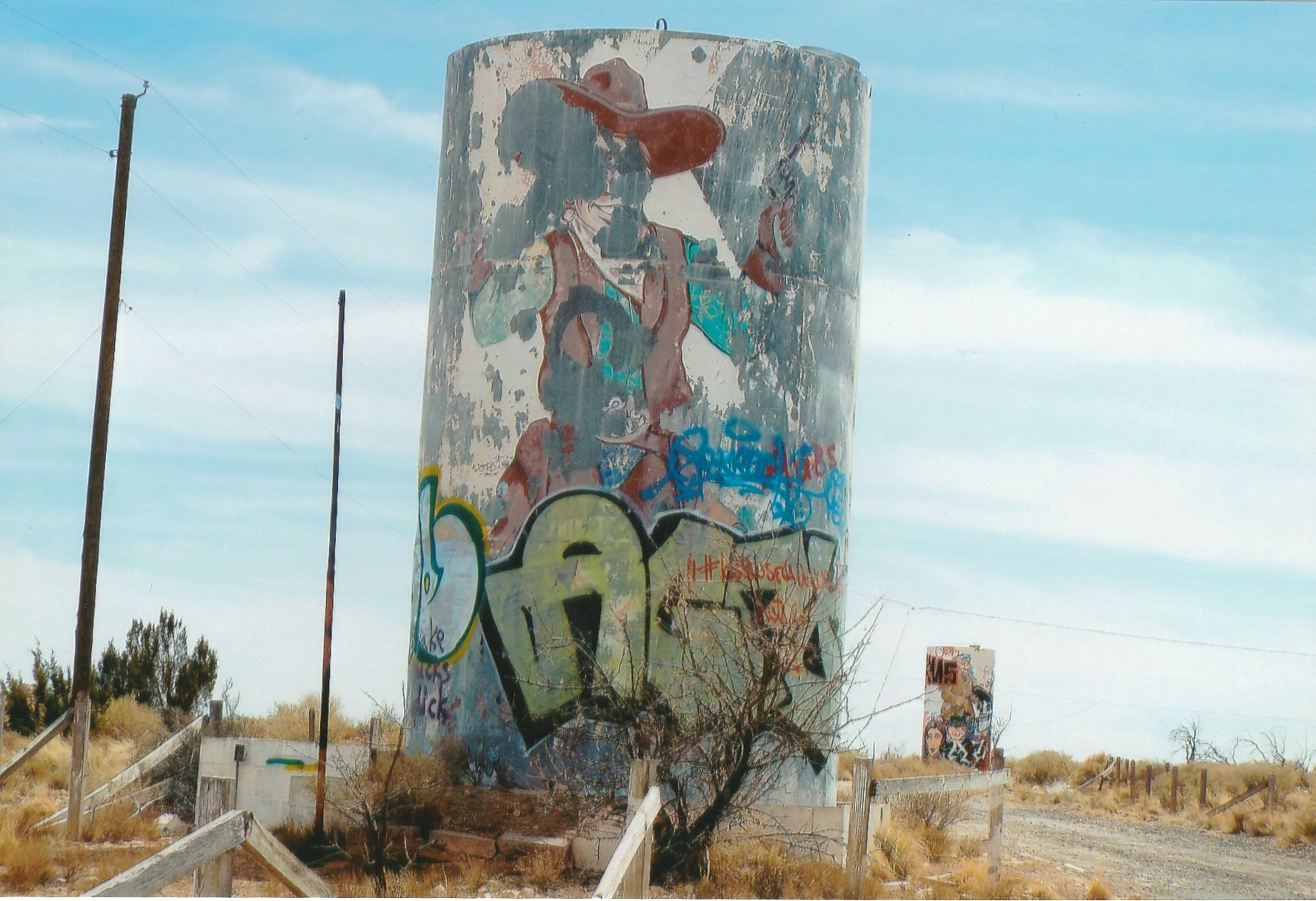 1960s Ruins in Two Guns, Arizona-Water Tank